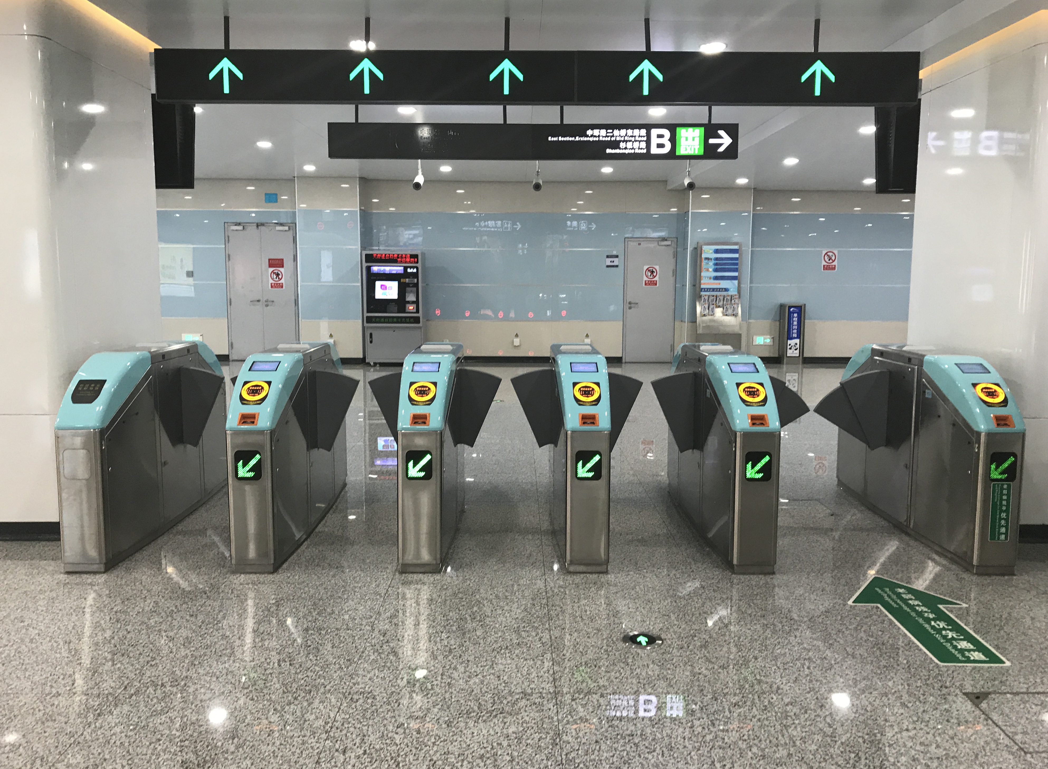 Turnstile in Chengdu University of Technology Station, Chengdu Metro